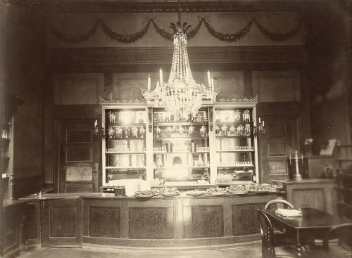 The (pastry) buffet in Jostys Pavillon in Copenhagen, Denmark